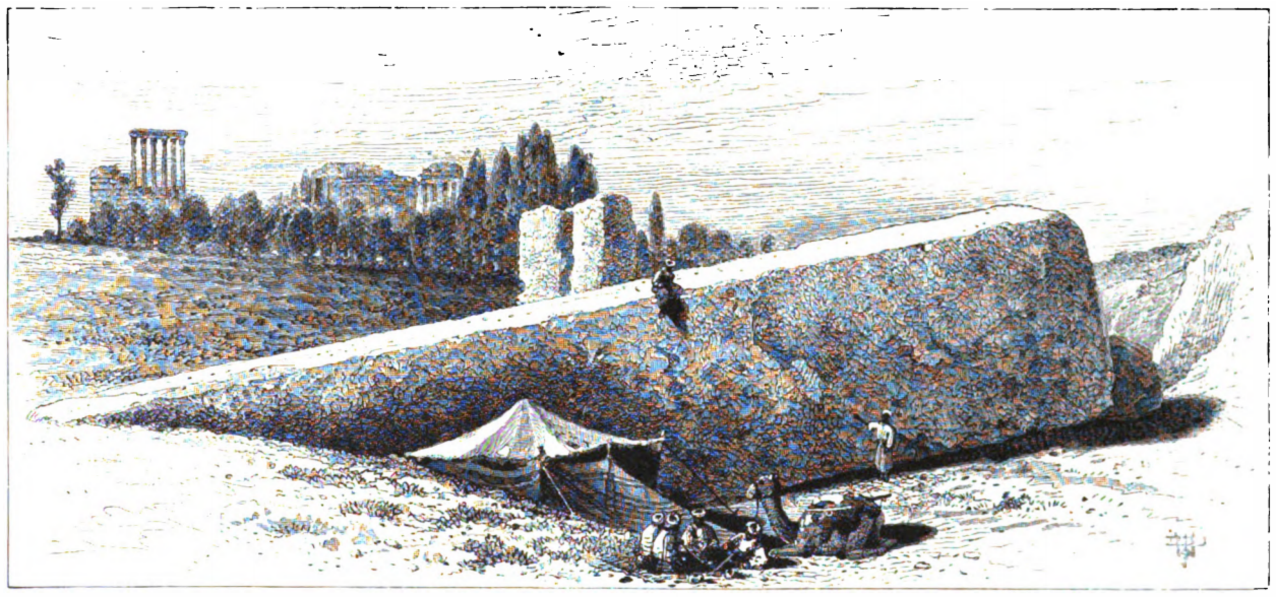 An engraving of the Stone of the Pregnant Woman in the quarry at Baalbek. The six pillars of the Temple of Jupiter visible in the background. Engraved from an original sketch or watercolor by J.D. Woodward.